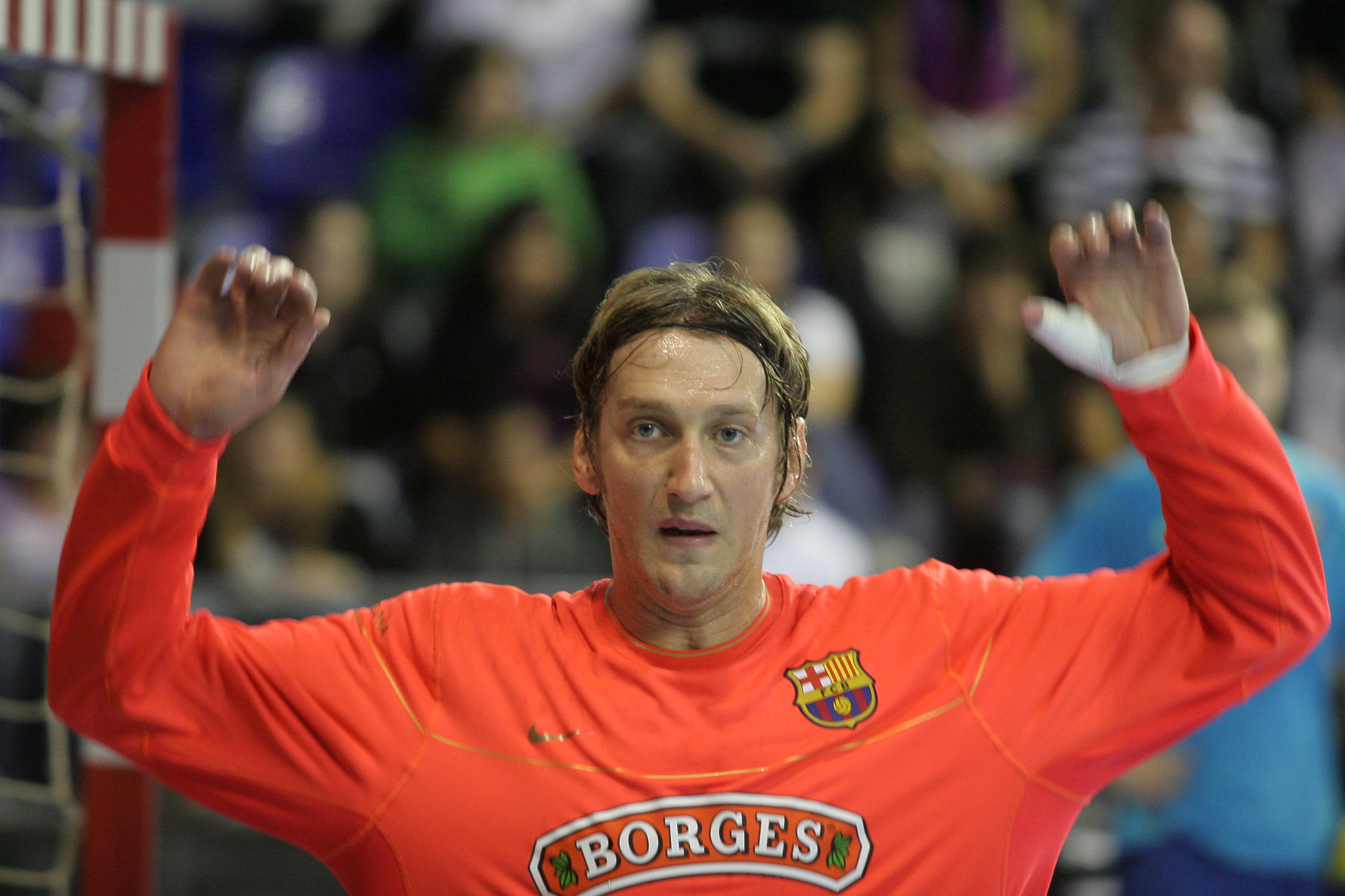 Venio Losert, Croatian handball player (goalkeeper) on October 12th, 2008 in Barcelona (Palau Blaugrana) prior the Champions League game FC Barcelona Borges - H.C. Metalurg Skopje